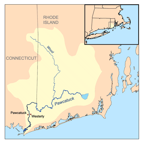 This is a map of the Pawcatuck River Watershed. I, Karl Musser, created it based on USGS data. Additional data was obtained from Rhode Island GIS, copyright RIGIS, used with permission.